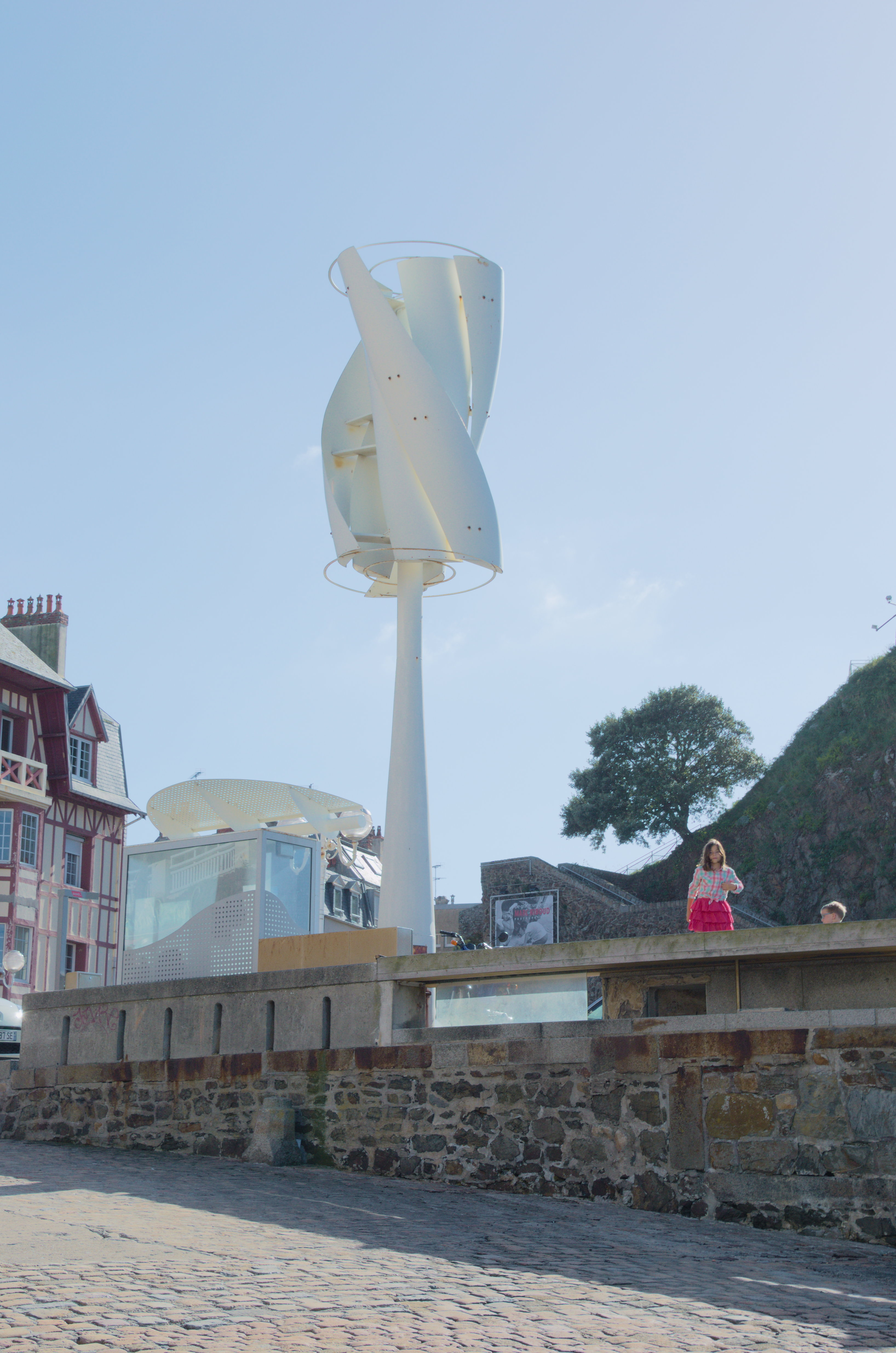 Twisted savonius wind turbine in Granville, France.